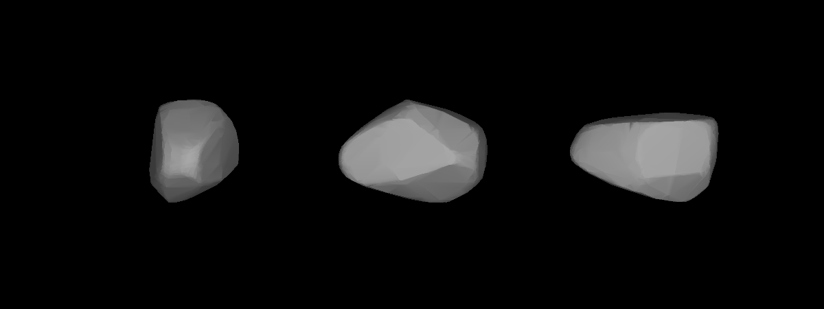 A three-dimensional model of 400 Ducrosa that was computed using light curve inversion techniques.